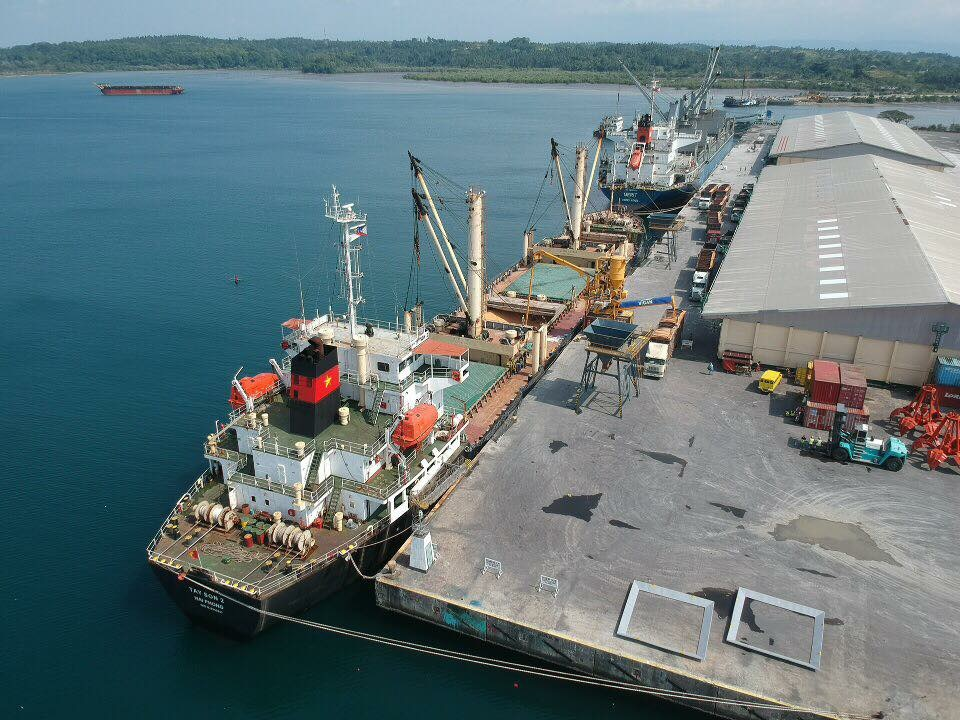 Polloc Freeport